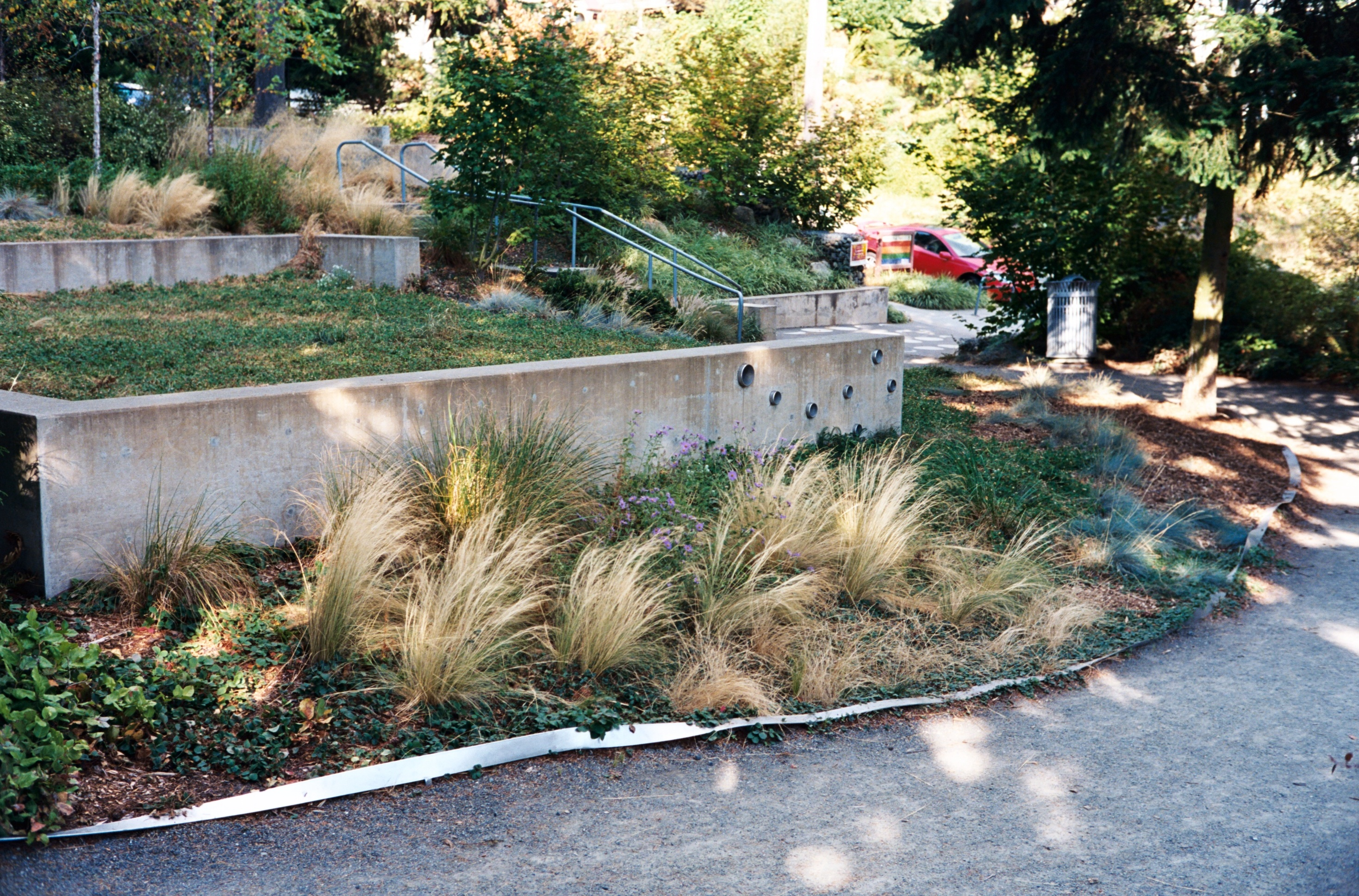 Terrace in Fremont Peak Park, Seattle, Washington